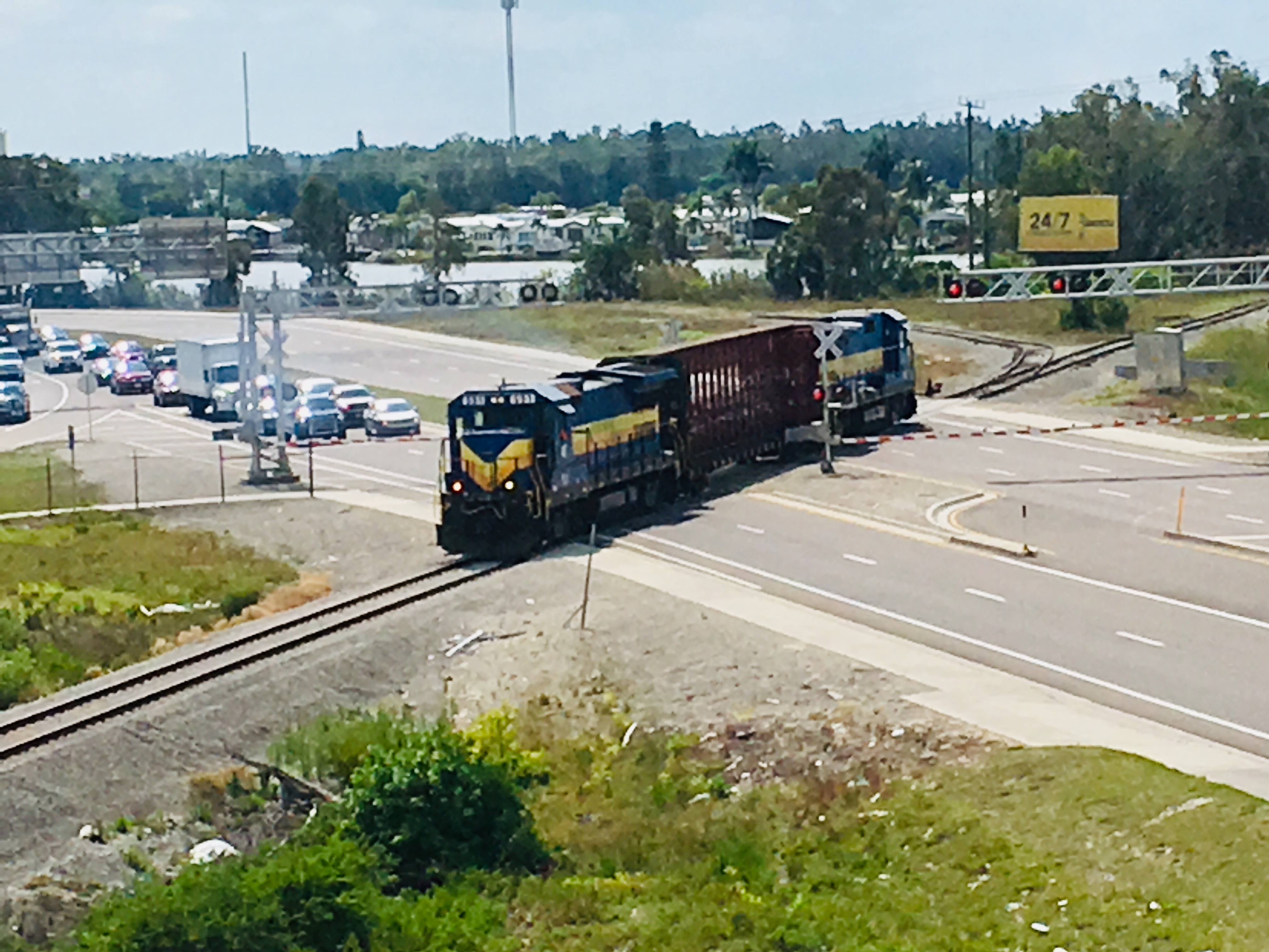 Seminole Gulf Freight Train crossing Alico Road as seen from Michael G. Rippe overpass.